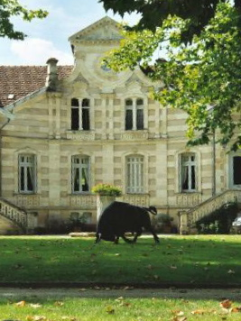 Château Maucaillou